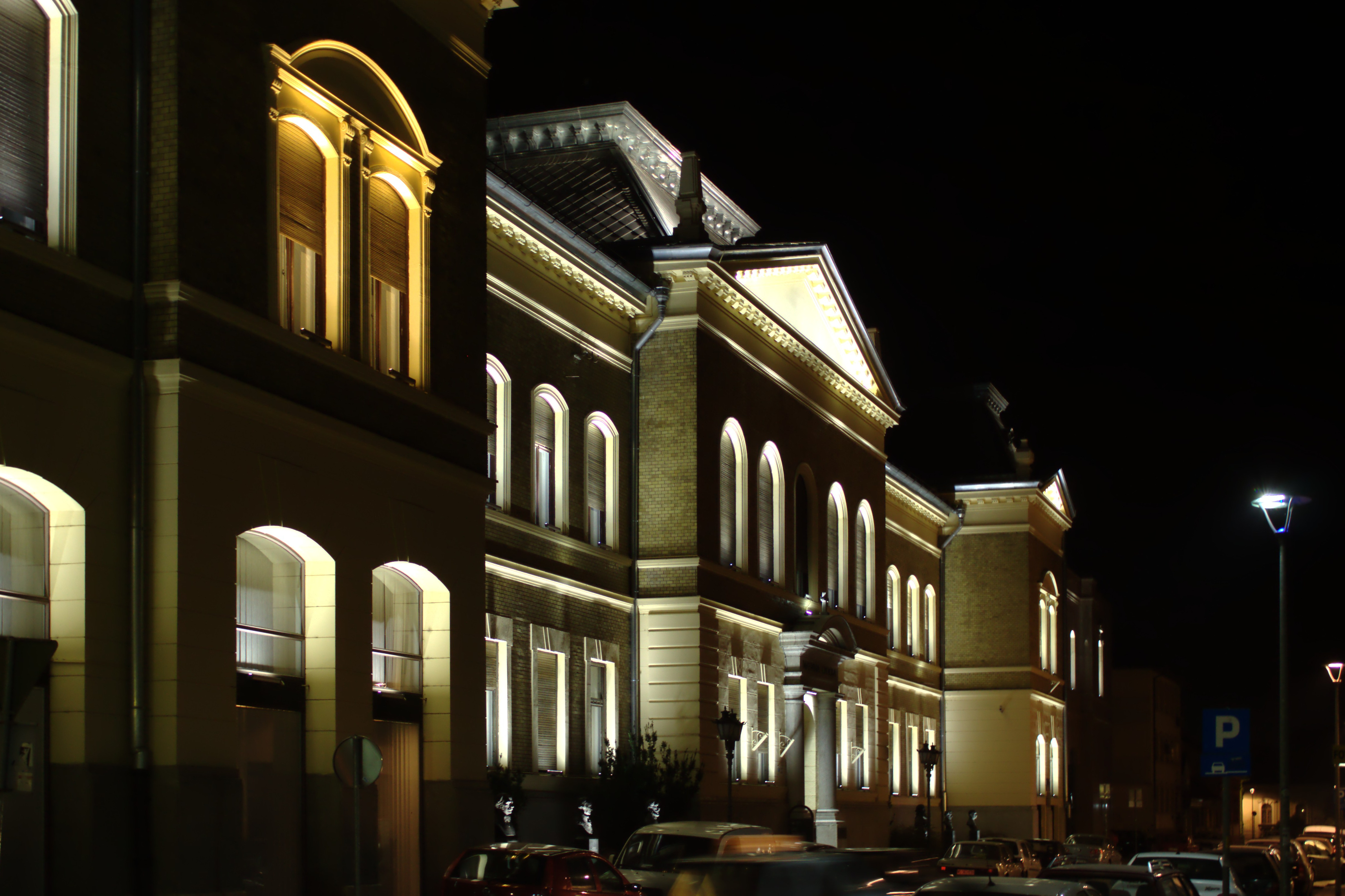 The building of Matica srpska at night, Novi Sad, Serbia